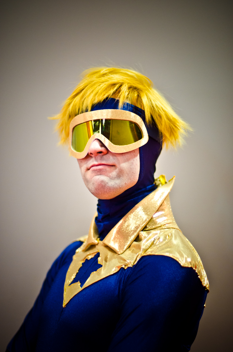 Cosplay at the 2013 Chicago Comic & Entertainment Expo (C2E2).